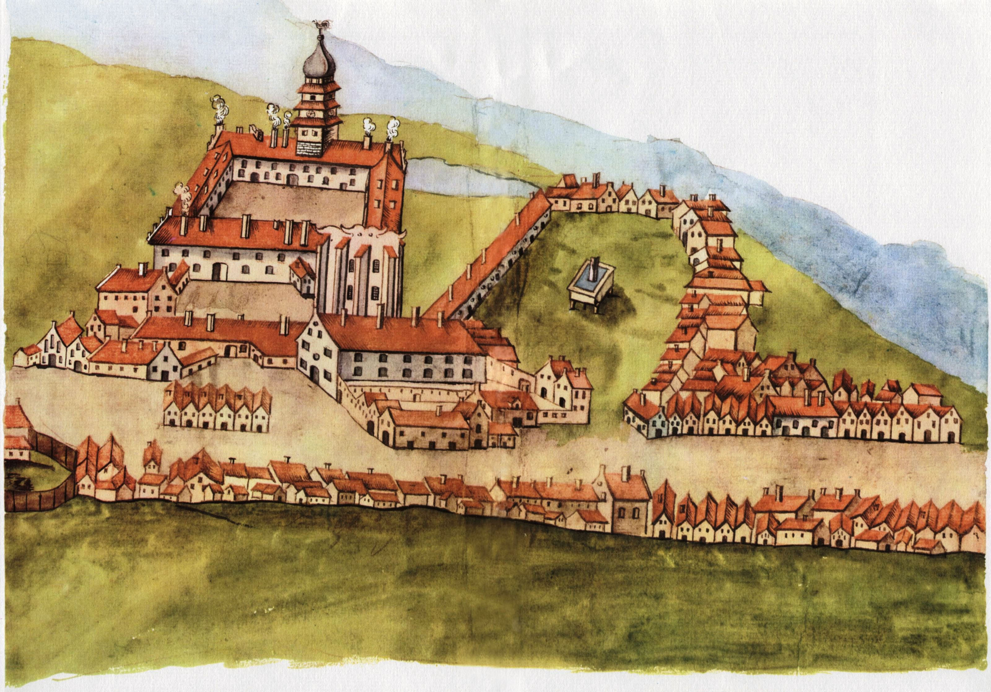 Cityview of Franzburg from the "Stralsunder Bilderhandschrift"